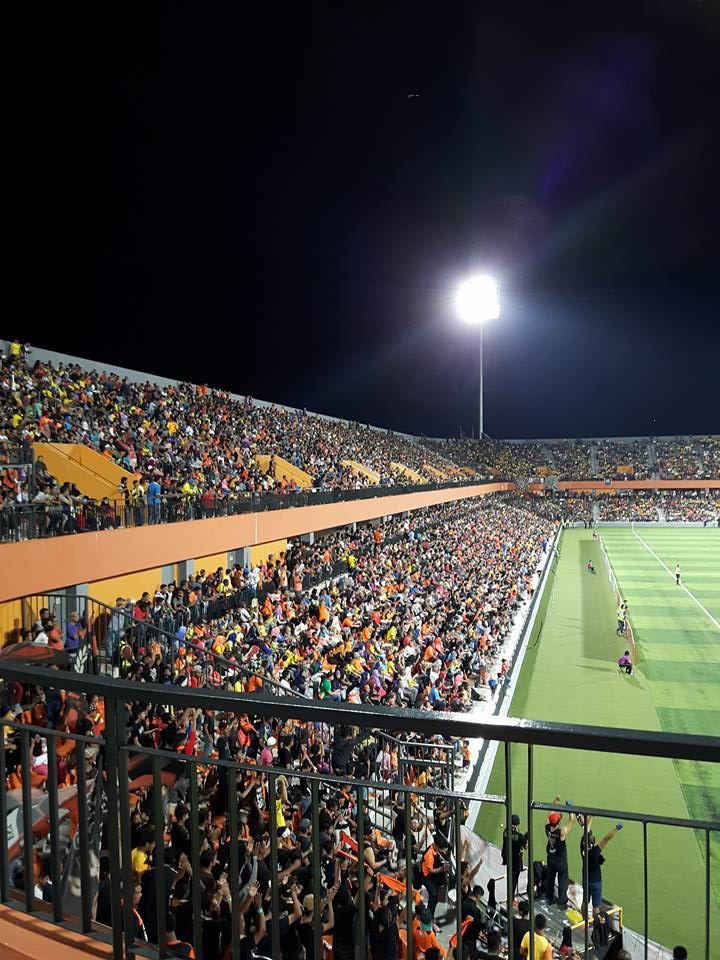 Stadium Tun Abdul Razak,capturing the spectator side stand.